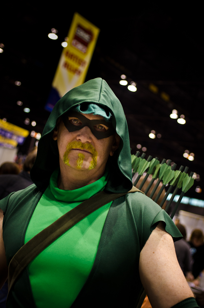 Green Arrow at 2012 C2E2